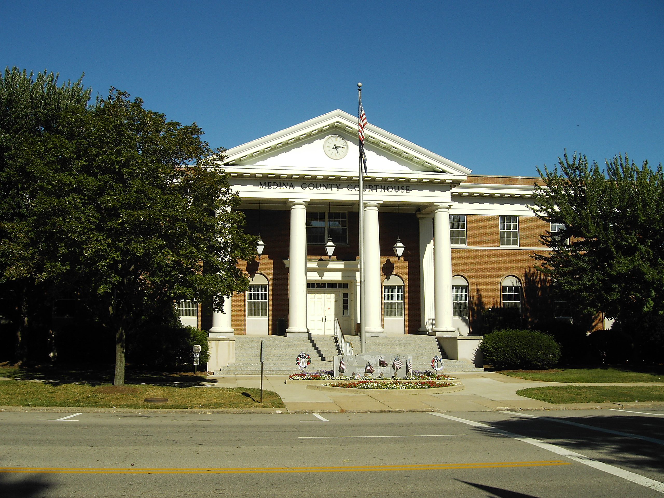 Current Courthouse in Medina County, Ohio